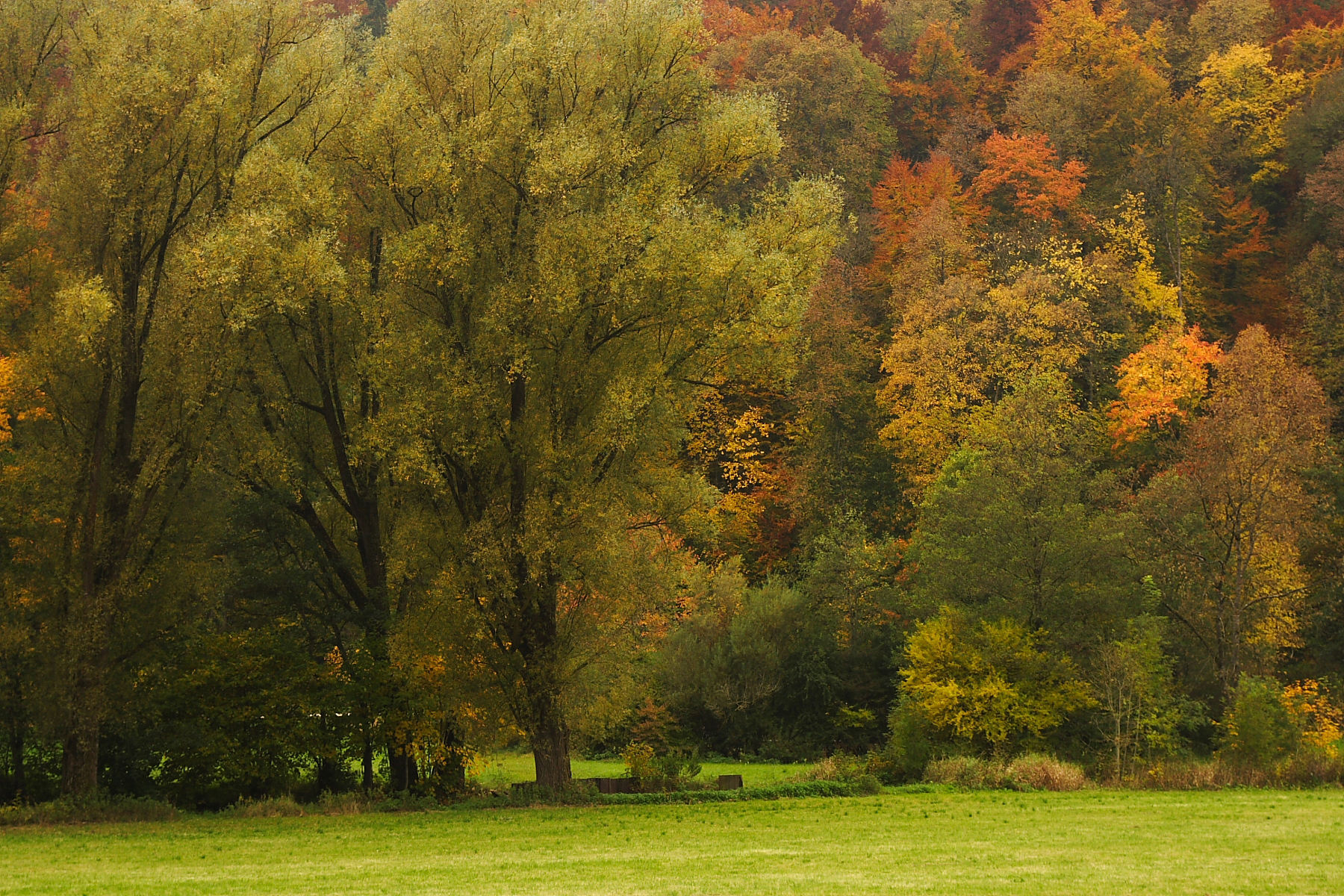 Landscape in the valley of the Grosse Lauter, Swabian Alb between “Hundersingen” and “Bichishausen”, both districts of Münsingen. The Lauter flows calmly, often meandering through floodplains, flanked by trees and bushes of all size. In this season of “Indian summer” leaves glow in intensive colours from light green to dark red.